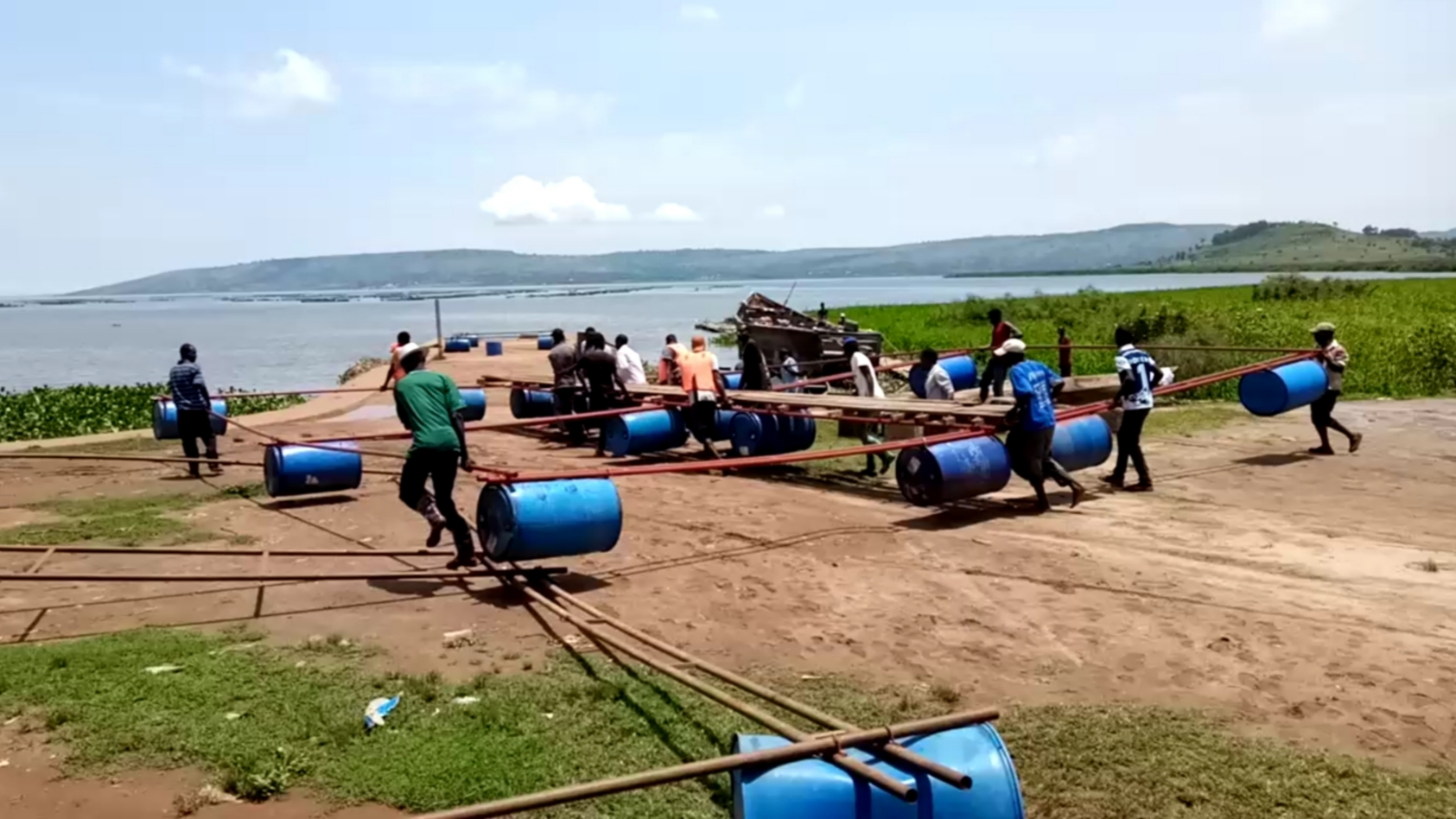 I was on my way traveling through Uganda, when I stopped at the Kagera River to rest after the long ride. It was then when I noticed people very busy in building a raft in order to cross the river before sunset. Male, female and even some kids were helping to get the job done. This is an image with the theme "Africa on the Move or Transport" from: Uganda